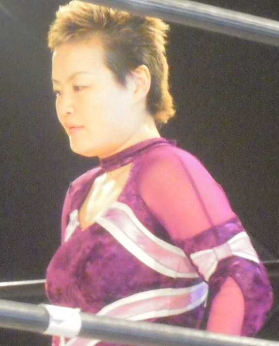 Japanese professional wrestler,Emi Sakura. Feb 26 2011 Ice Ribbon.